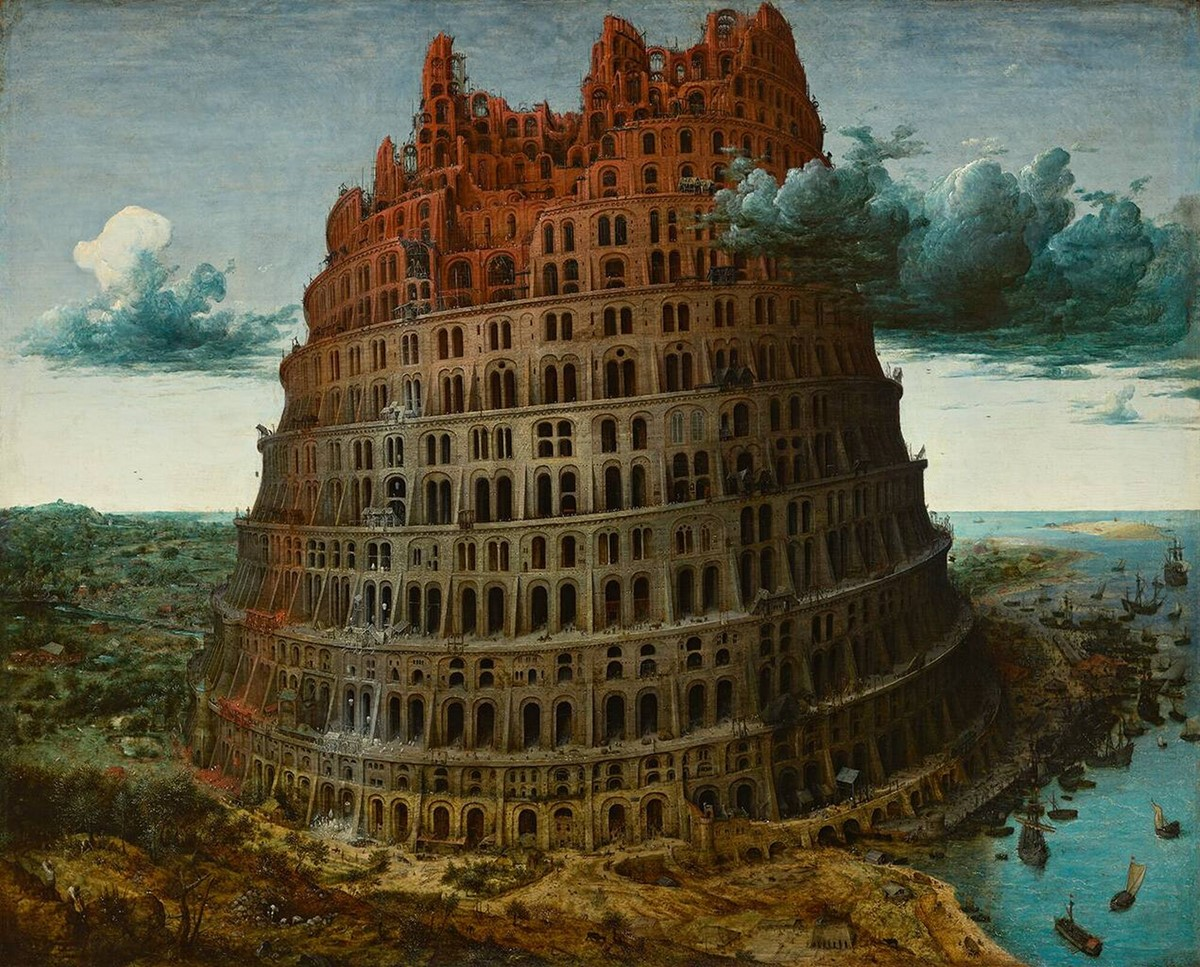 Bruegel painted three versions of the Tower of Babel. One is kept in the Museum Boijmans Van Beuningen in Rotterdam, the second in the Kunsthistorisches Museum in Vienna (see Category:The Tower of Babel by Pieter Bruegel the Elder), while the location of the third version (a miniature on ivory) is unknown.